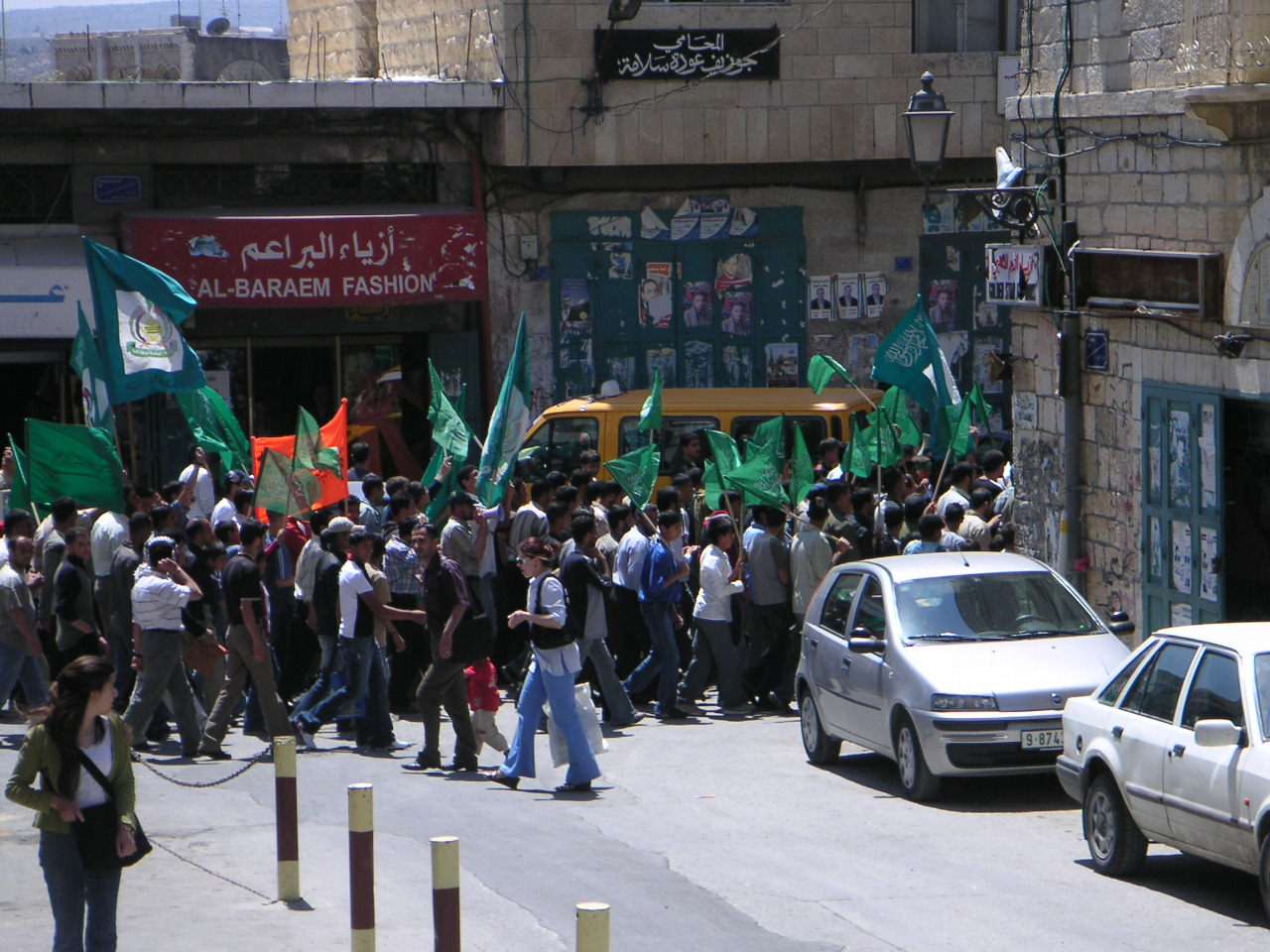 Photo: Soman